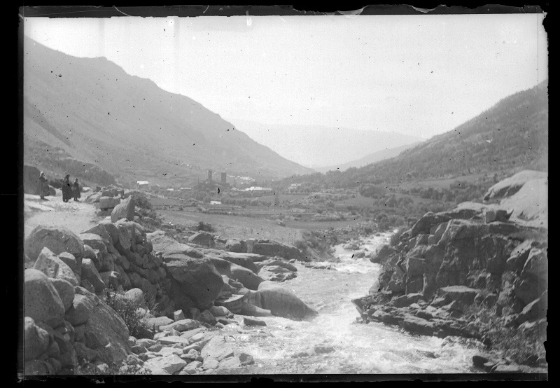 Valley and castle of Carol (Pyrénées Orientales, France) in august 1899. Fonds ancien Eugène Trutat, Muséum de Toulouse